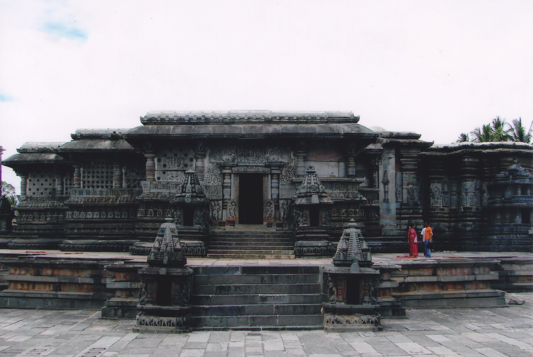 Photograph taken by me (Dinesh Kannambadi) at Chennakeshava temple - rear view (also spelt Chennakesava), Belur, Karnataka, India